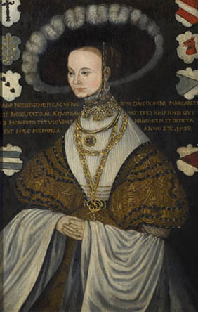 Portrait of Margareta Eriksdotter, sister of King Gustaf I of Sweden.